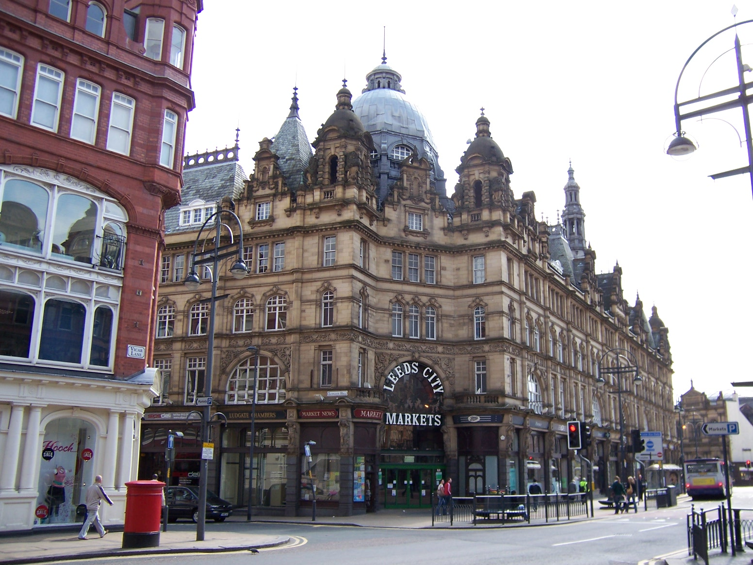 Kirkgate Market in Leeds, West Yorkshire (England) own work; photo taken on 30 April 2006